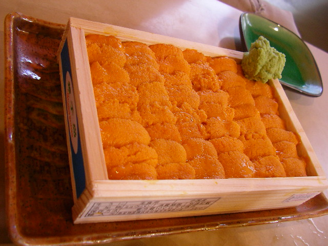 A basketful of sea urchin "coral" (edible gonads), in Japan.